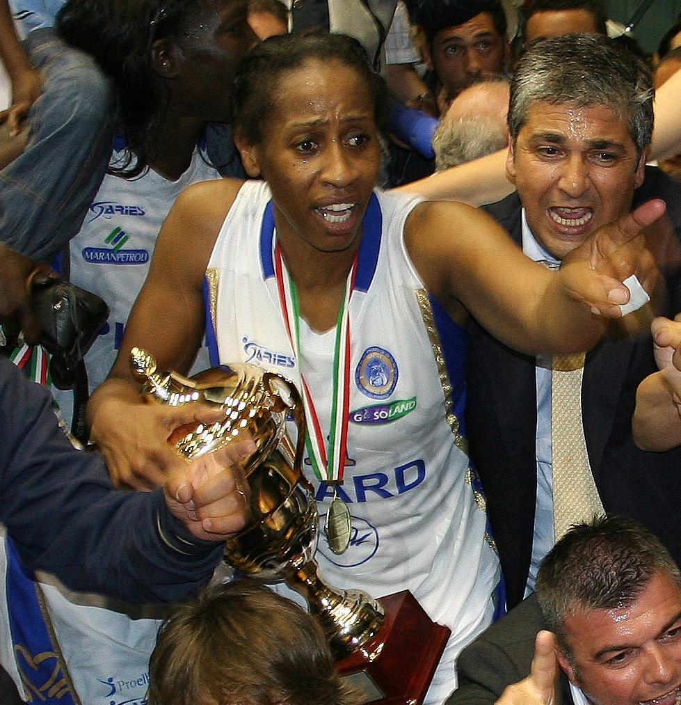 French basketball player Nicole Antibe after the italian national winning of her team the Phard Napoli. Extarct from Image:Phard Napoli.JPG originally shot by Massimo Finizio, using GThumb